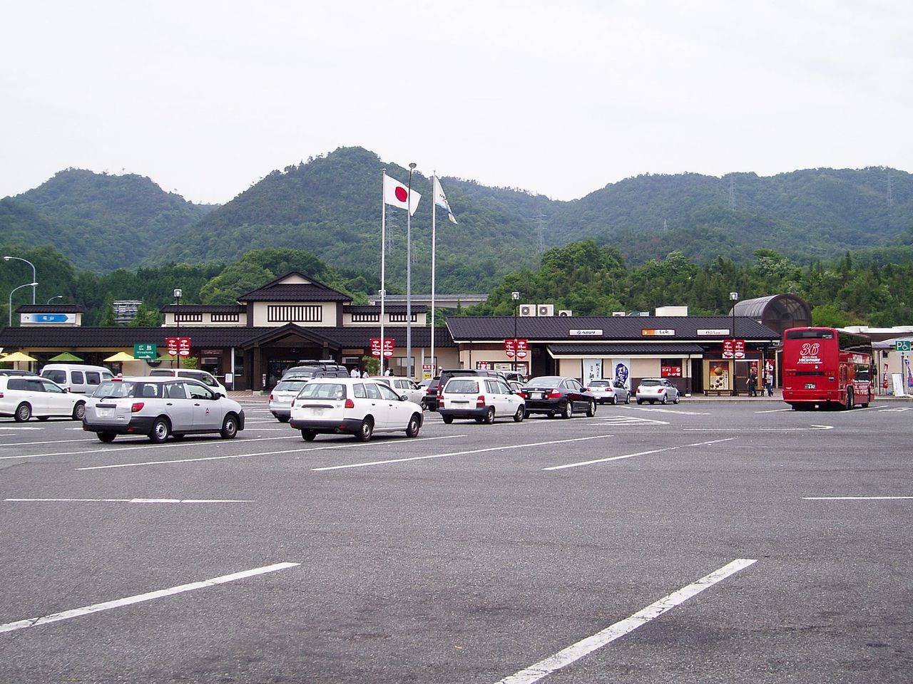 Fukuyama Service Area on the Sanyo Expressway outbound line for Yamaguchi